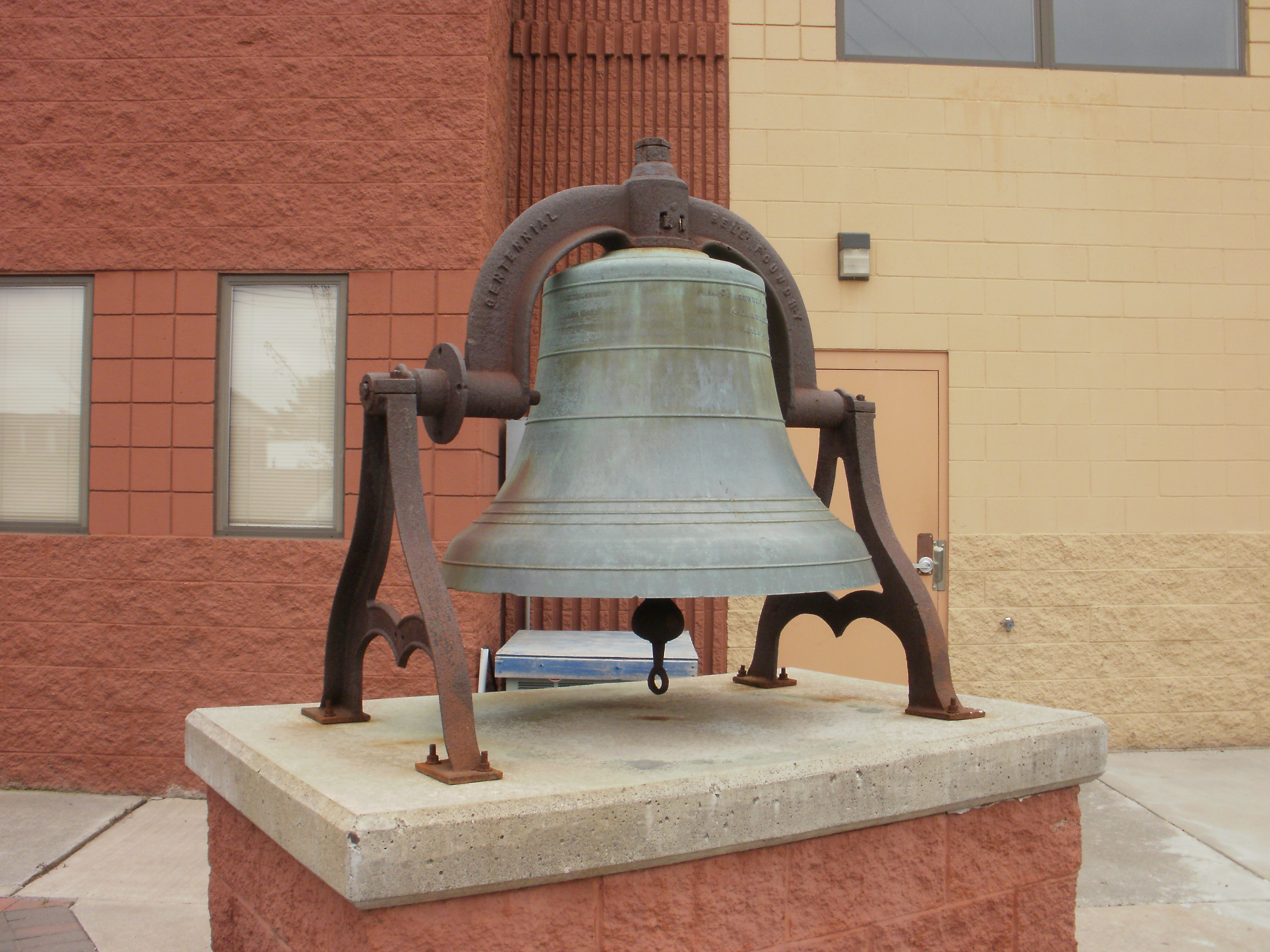 Bell from the Houghton Fire Hall located at the current fire station. Inscription reads: "Centennial Bell Foundry / G. Campbell & Sons, / Milwaukee Wis / 1884"